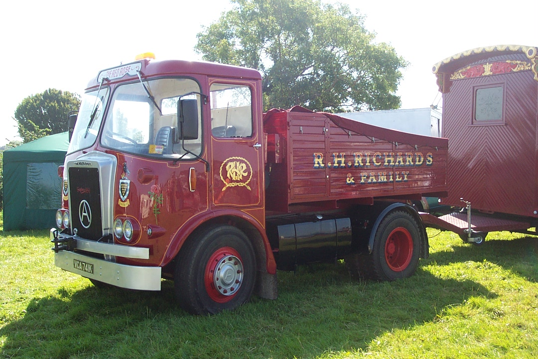 An Atkinson ballast tractor, at the Torbay Steam Fair on 5 August 2007, liveried in "family" livery to mimic a fairground heavy haulage vehicle Picture taken by Tim Trent